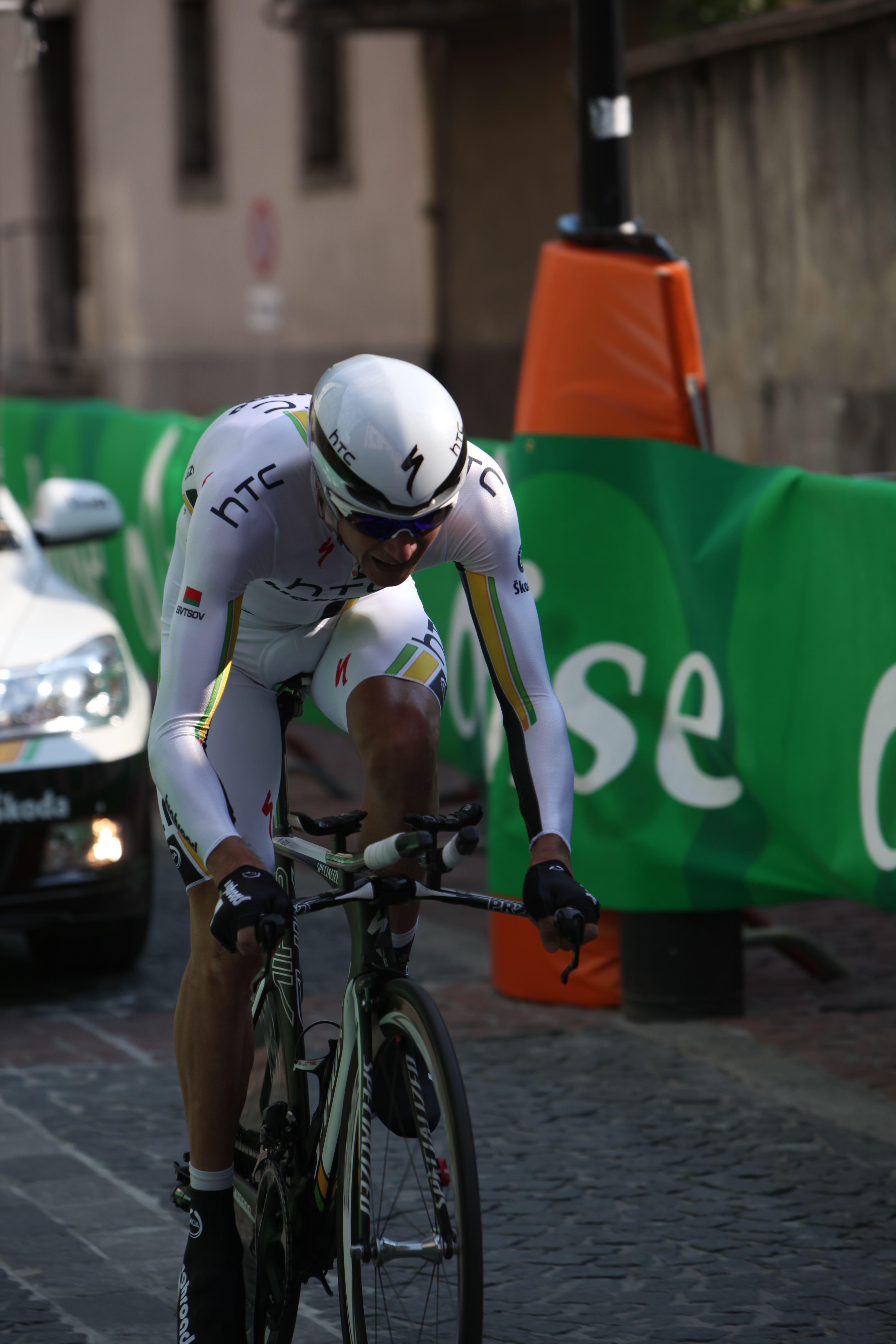 Kanstantsin Sivtsov at the prologue of the Tour de Romandie 2011